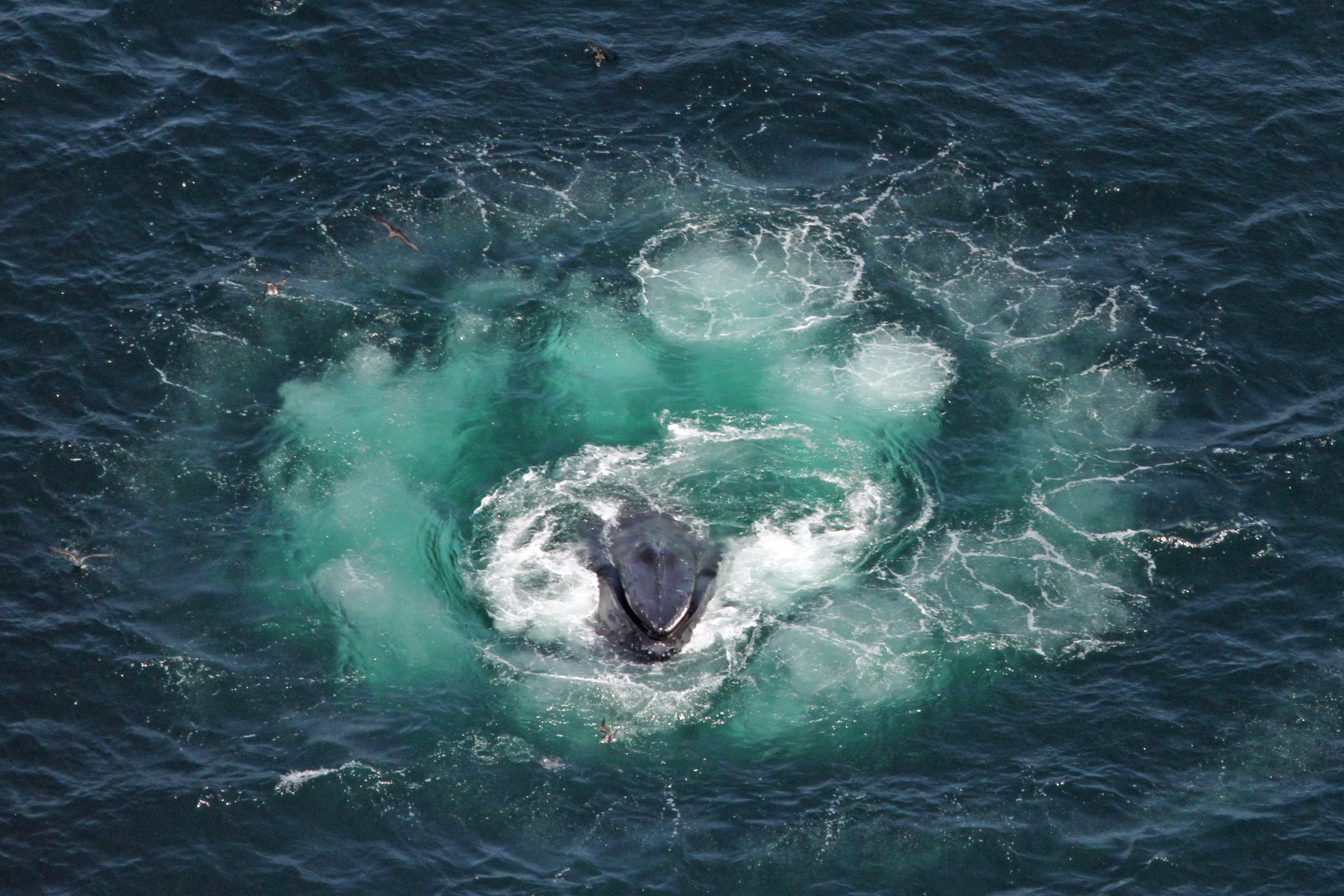 Humpback whale (Megaptera novaeangliae) lunging in the center of a bubble net spiral. The original NOAA image has been modified by adjusting brightness and contrast.